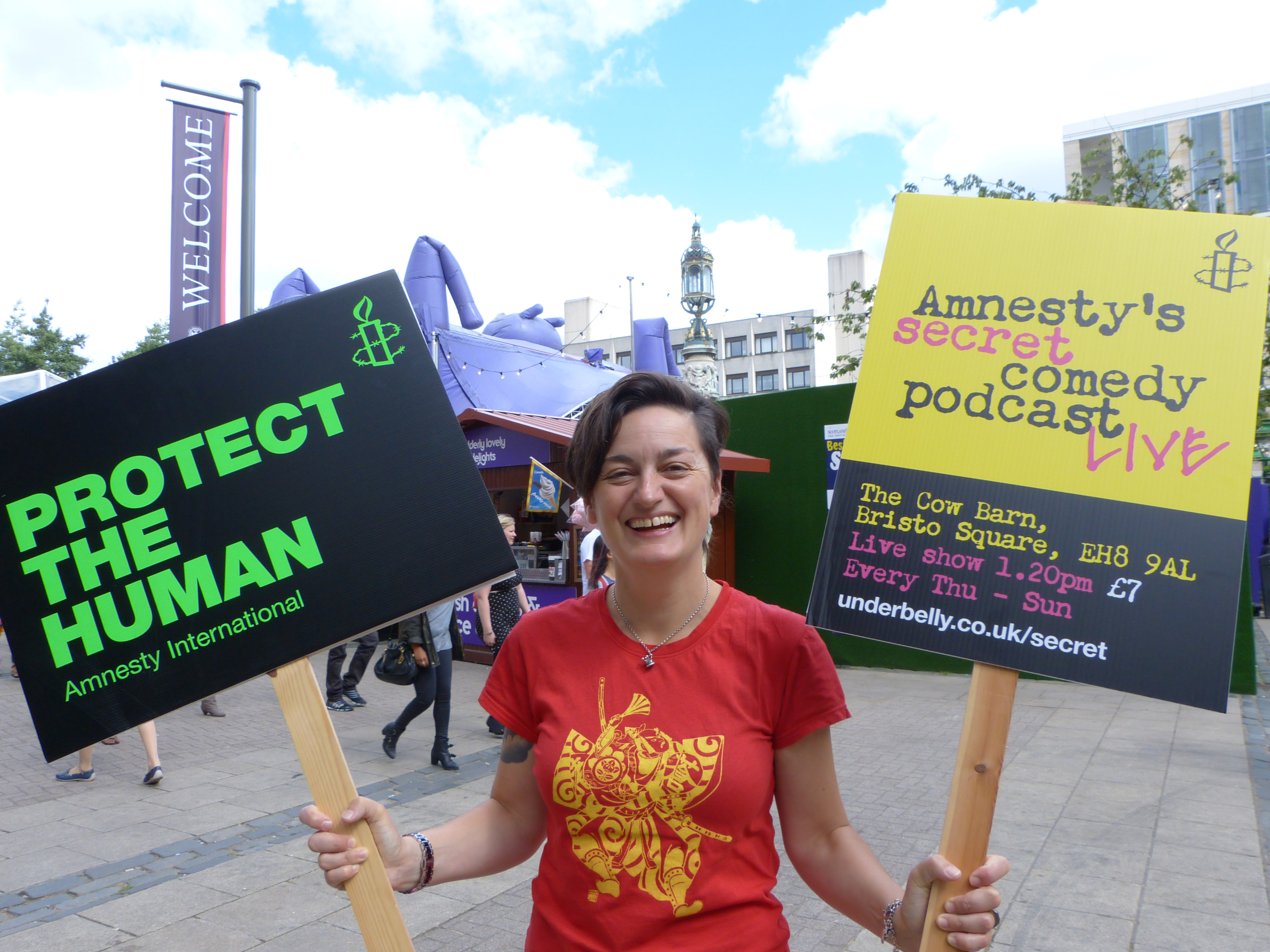 Zoe Lyons - Secret Comedy Podcast